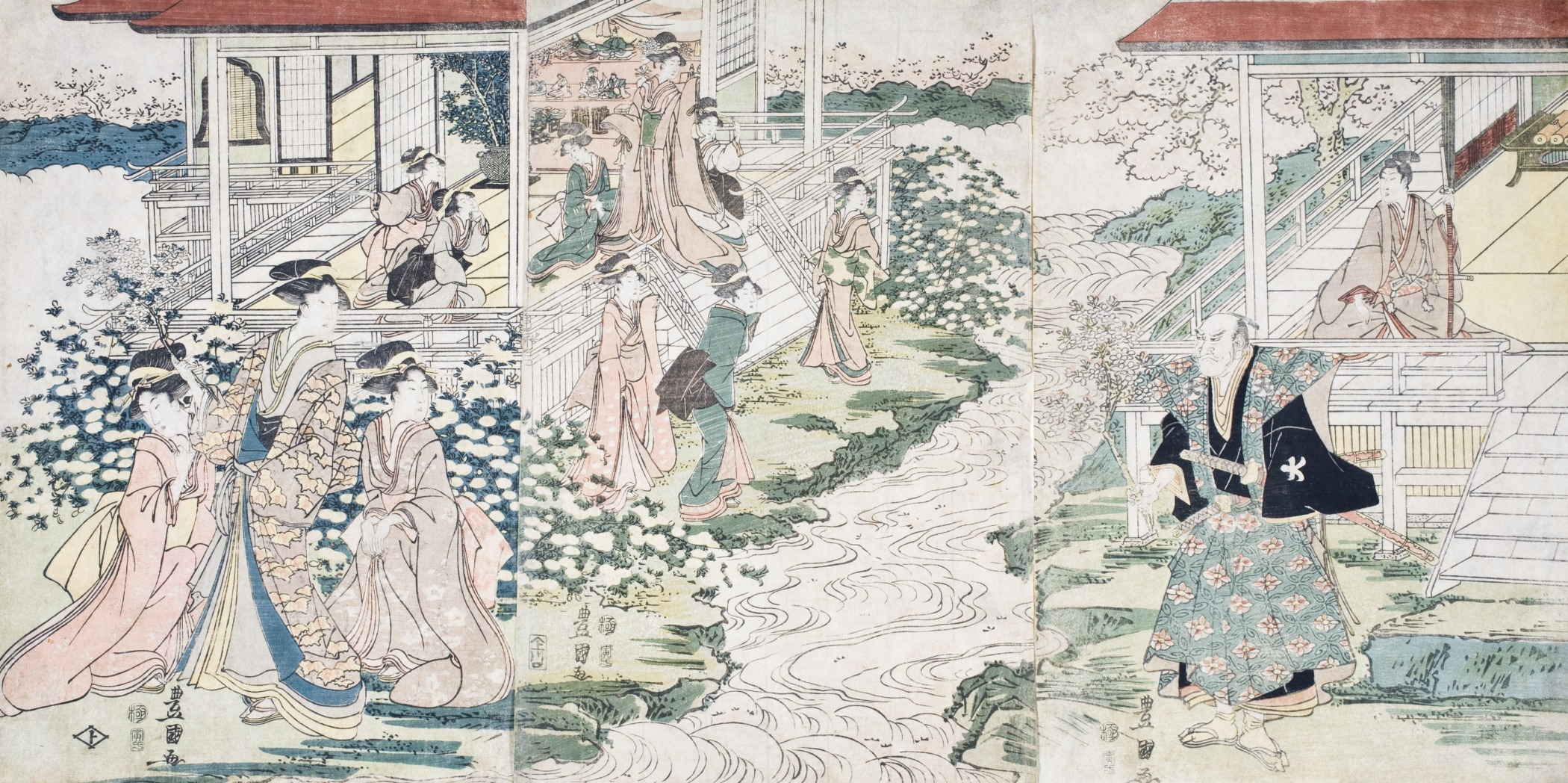 tenth month 1806 Prints; woodcuts Color woodblock print triptych Sheet: 14 1/4 x 28 5/8 in. (36.2 x 72.8 cm) The Joan Elizabeth Tanney Bequest (M.2006.136.293a-c) Japanese Art